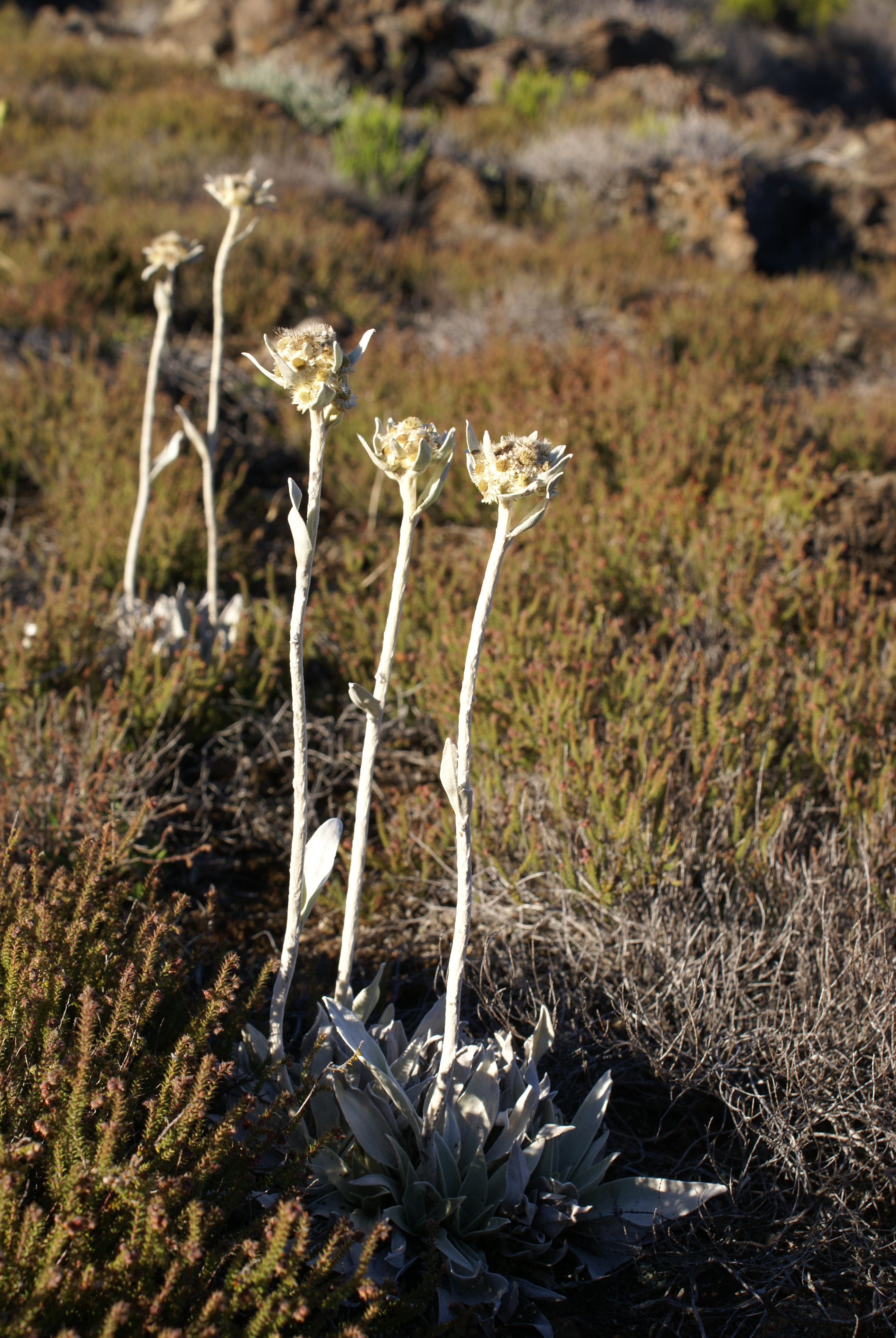 Helichrysum arnicoides a species of Asteraceae endemic to high lands of Réunion island among Erica galioides